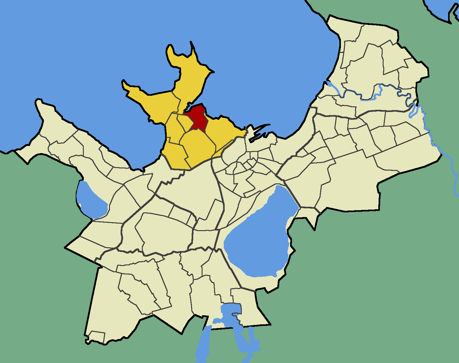 Map of Tallinn (Estonia) with borders of the quarters, Põhja-Tallinn district and Karjamaa quarter emphasised